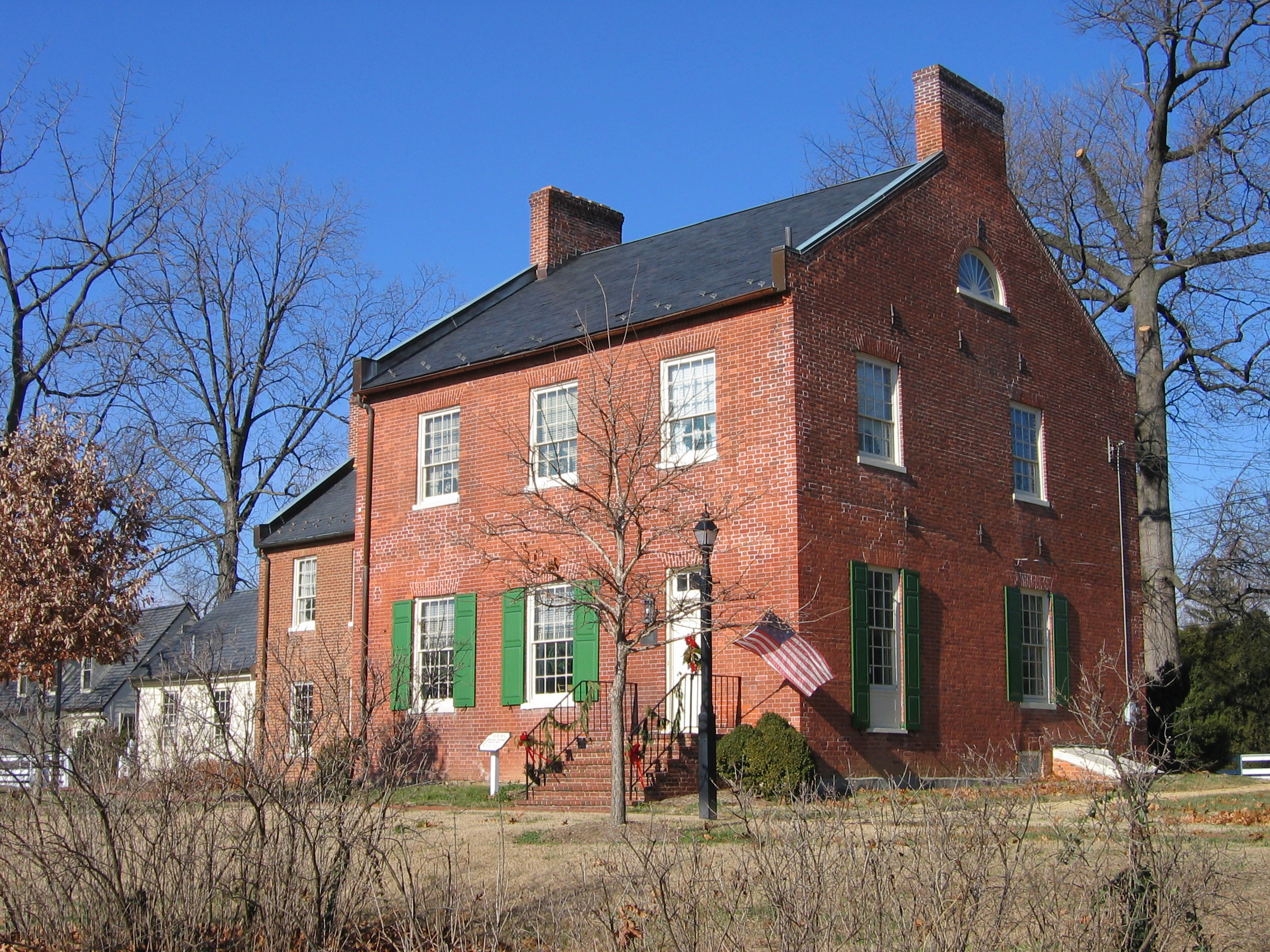 Beall-Dawson house, located in Rockville, Maryland, was built in 1815 by Upton Beall, Clerk of the Montgomery County Court. It is now a museum, operated by the Montgomery County Historical Society.